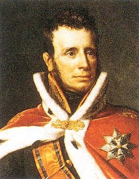 (detail)King William I of the Netherlands, detail of state portrait destined for Batavia (now: Jakarta). Original painting in the Rijksmuseum([1])